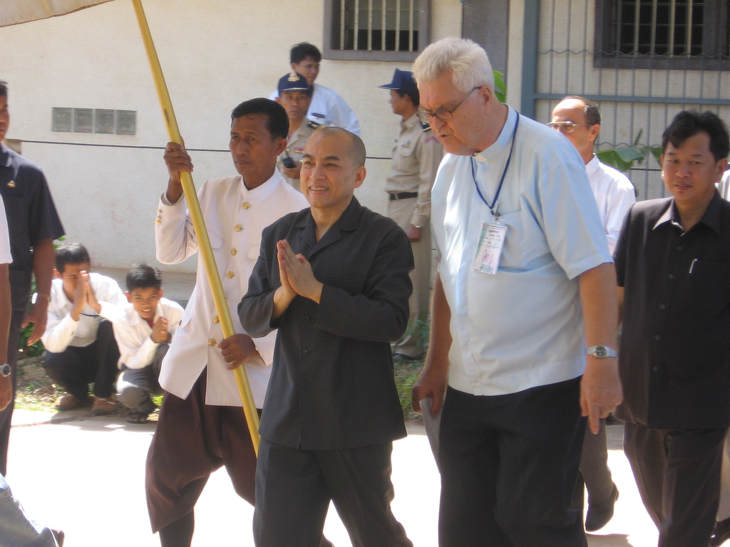 On February 12, 2007, the King of Cambodia, His Majesty Norodom Sihamoni, visited the Don Bosco Technical School of Sihanoukville and opened officially the Don Bosco Hotel School. The King wanted to pay a visit to the young people who are receiving a skill and who come from poor conditions from the south of Cambodia. At His side is Fr. John Visser, a Salesian Dutch Missionary who is the actual Rector of Don Bosco Sihanoukville.